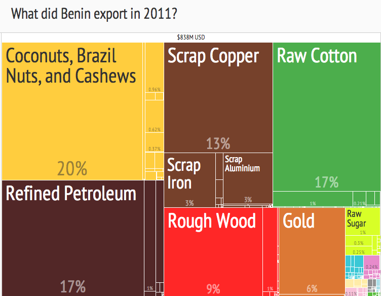 2011 Benin Exports from MIT Harvard Economic Observatory